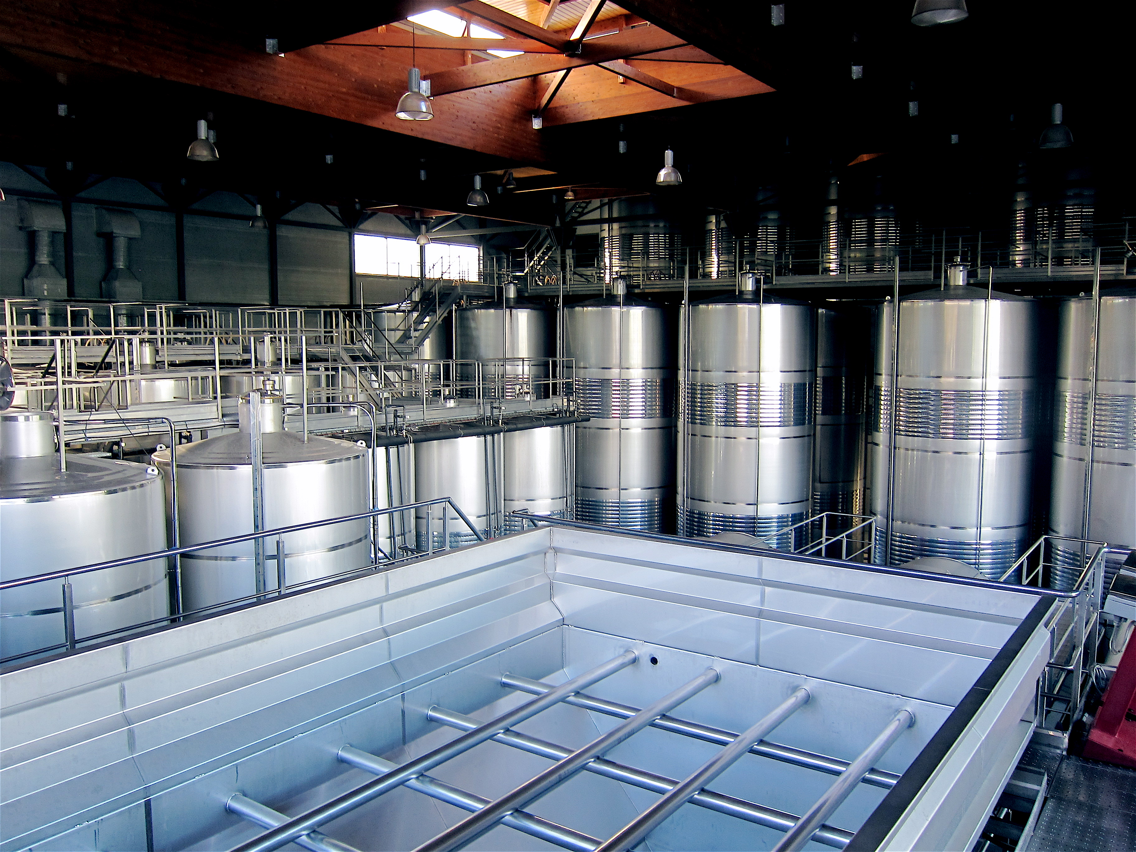 A cooperative winery operation in the Ribeiro DO of the northwest Spanish wine region of Galicia.